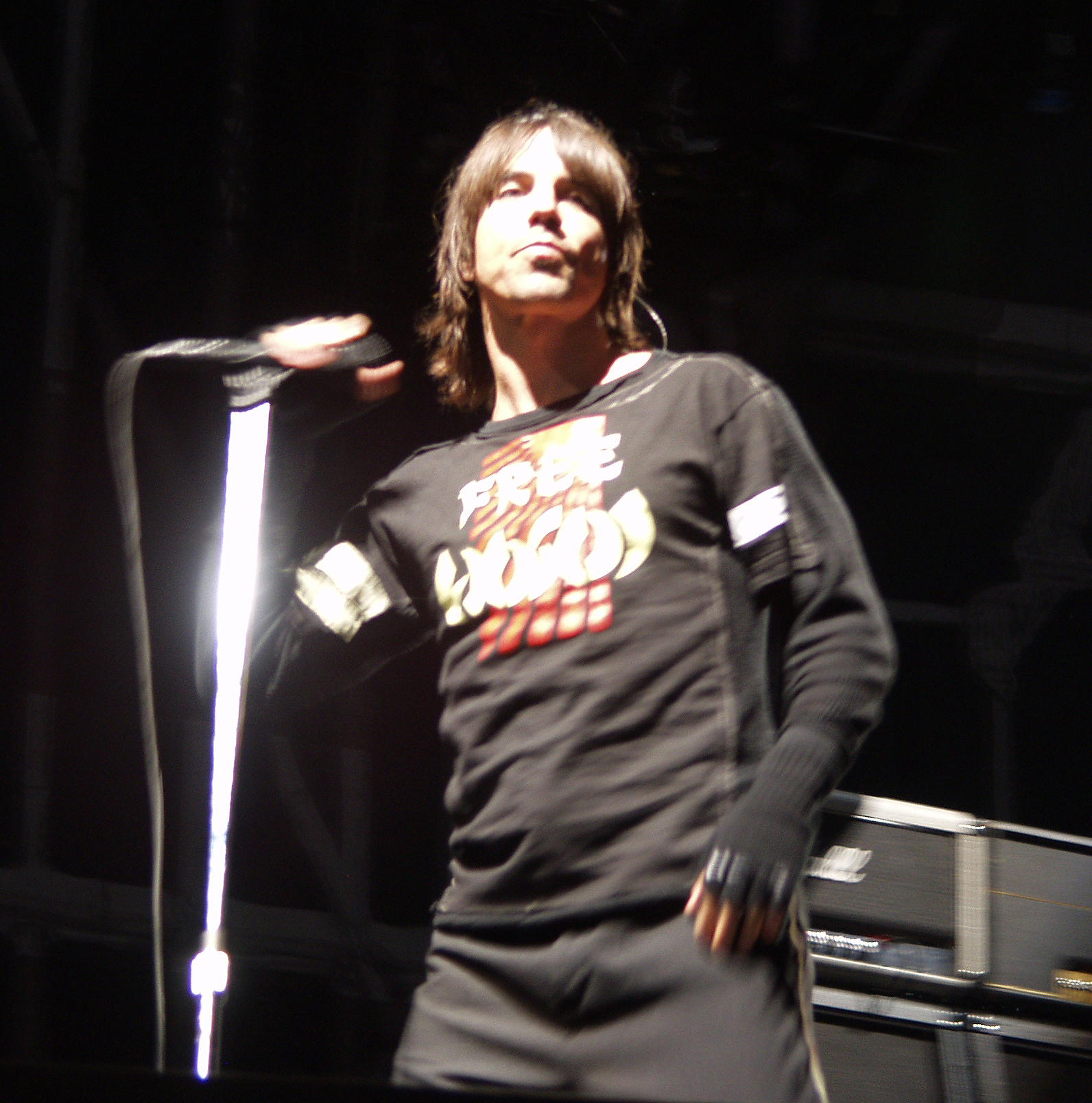 Anthony Kiedis of the Red Hot Chili Peppers at the V Festival 2006